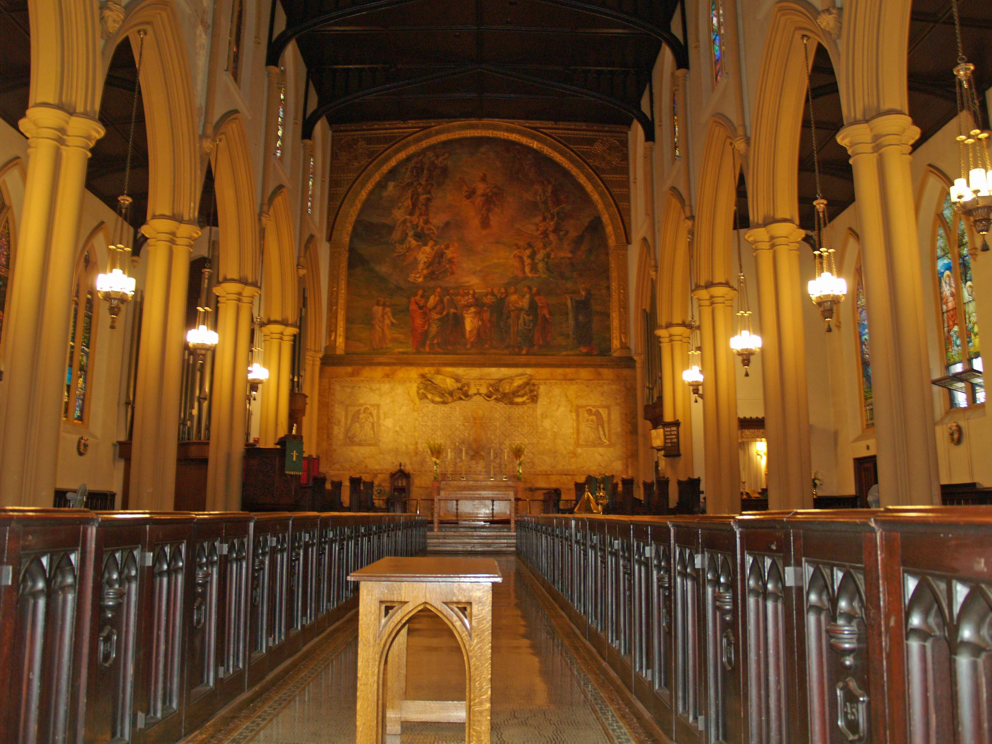 Interior of Church of the Ascension (New York) by David Shankbone